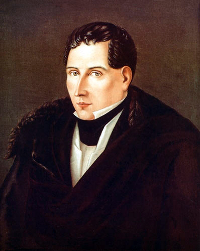 Portrait of Diego Portales Palazuelos (1793-1837)